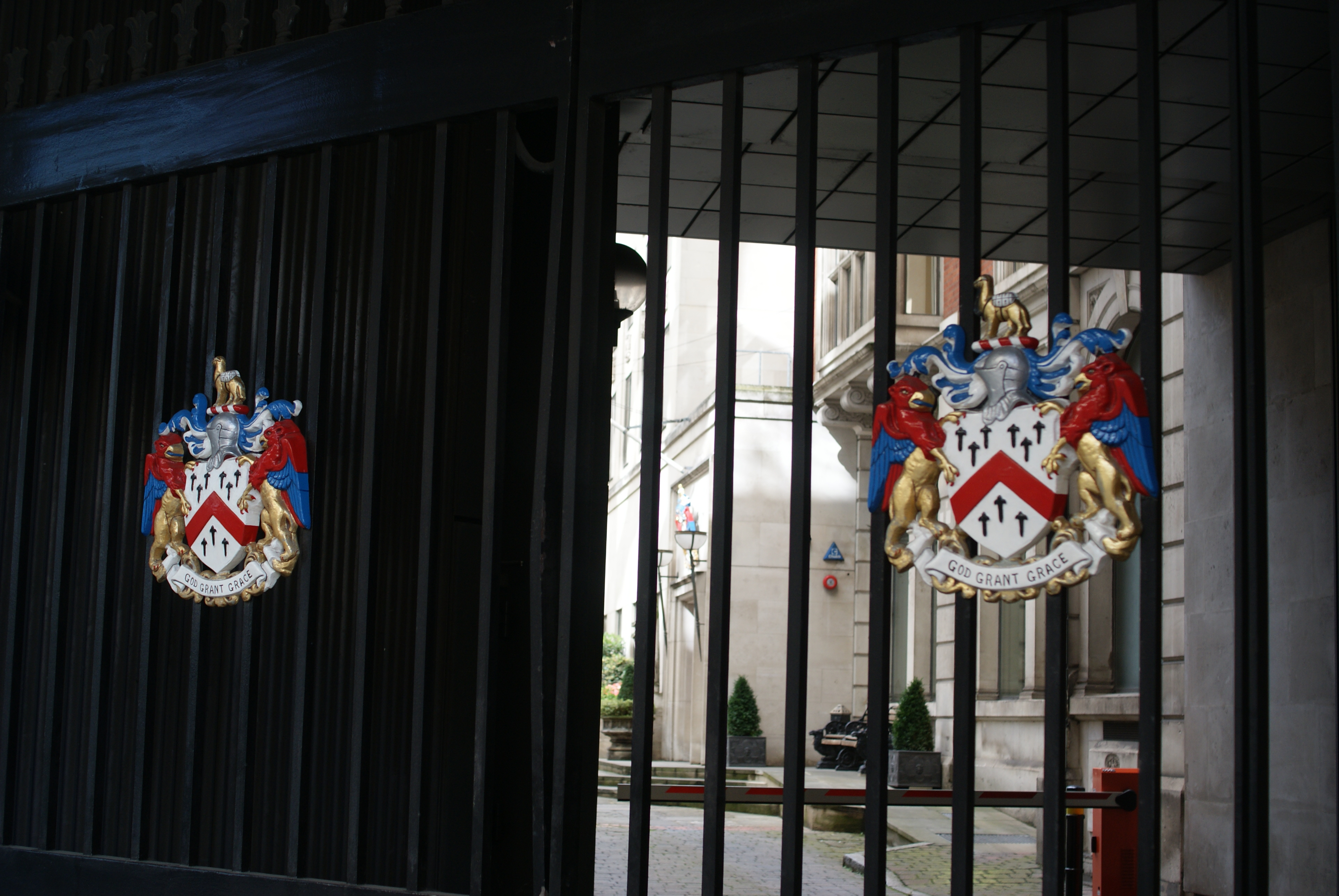 Company of Grocers' coat of arms, City of London